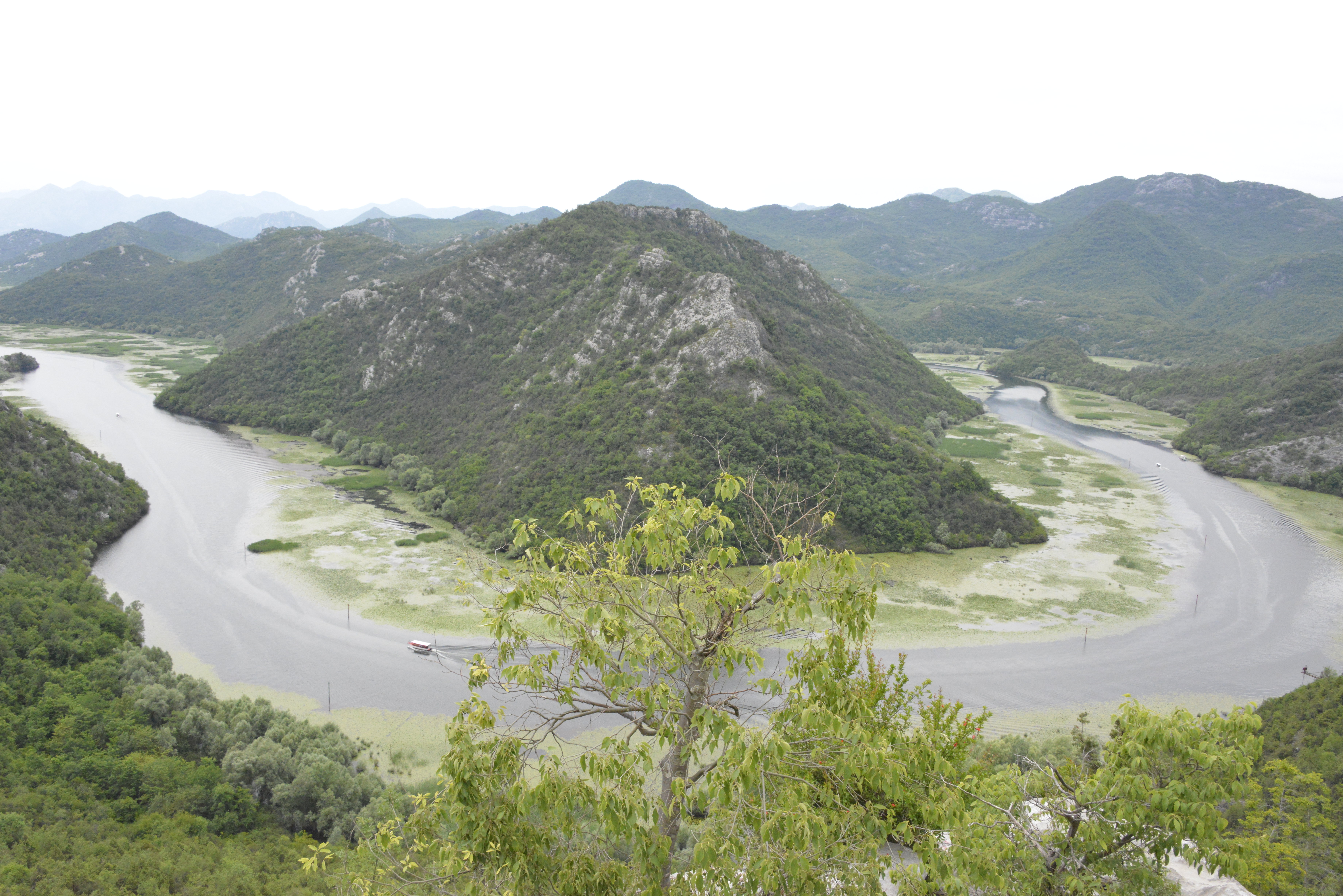 Environment in and around Rijeka Crnojevića, a small town on Lake Skadar (Lake Scutari), Montenegro